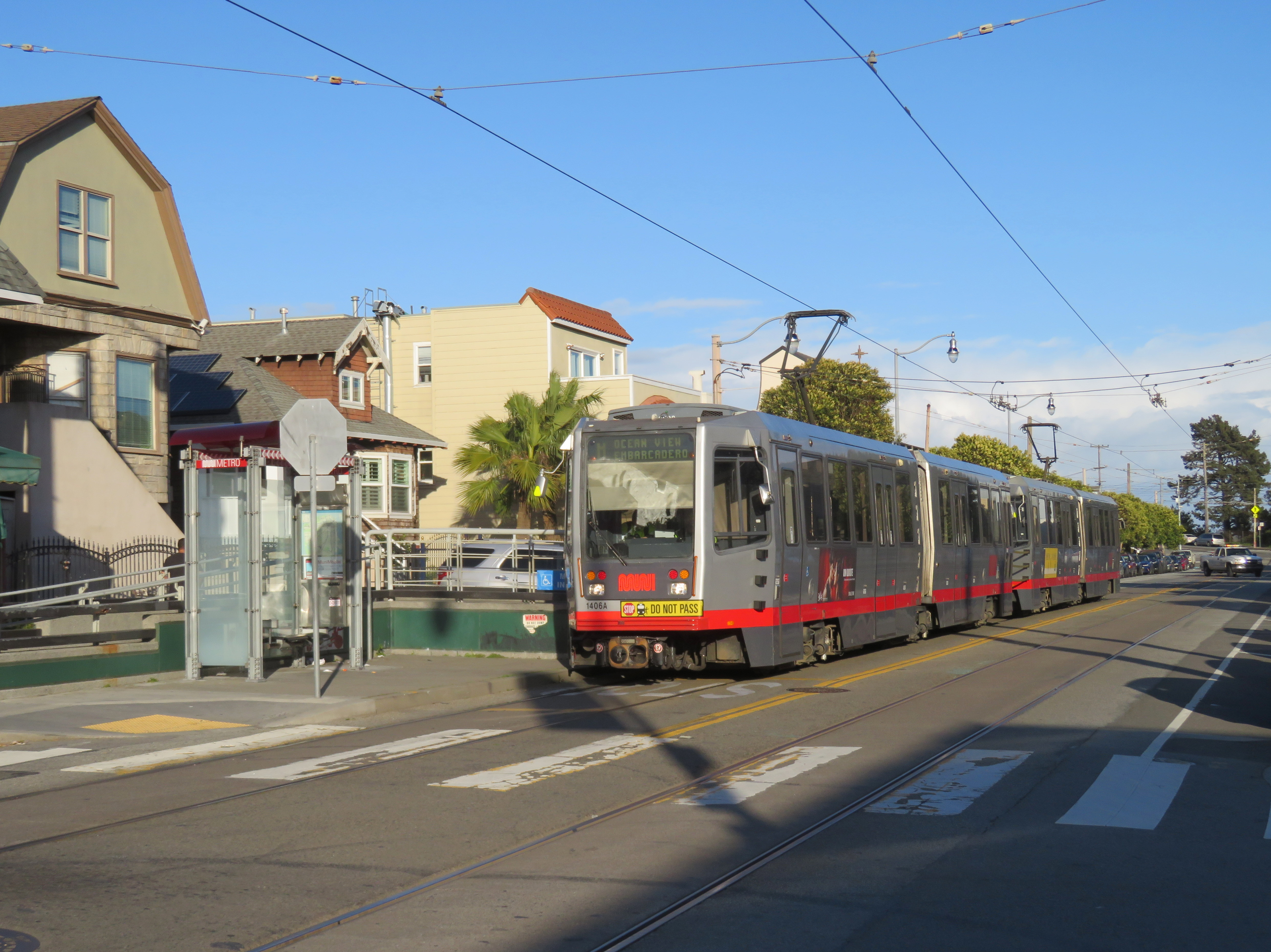 An inbound train at Broad and Plymouth in February 2019